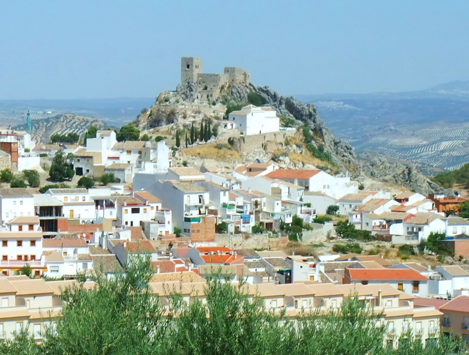 View at Luque from the south, Province Córdoba in Spain